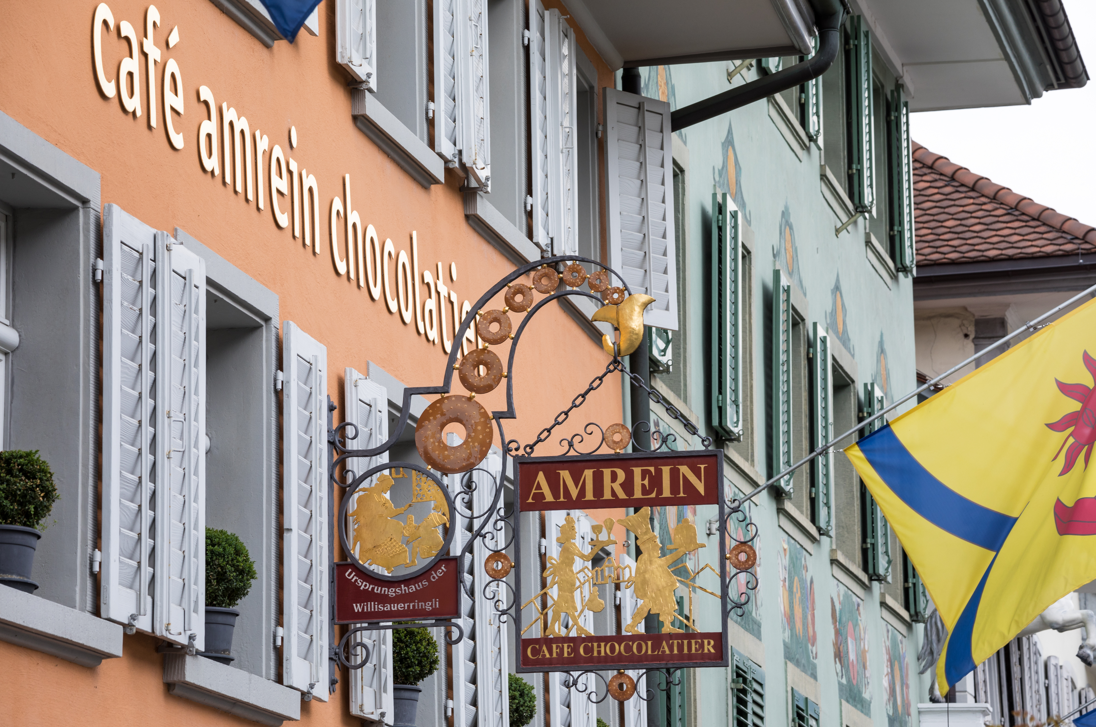 Willisau, Kanton Luzern: Café Amrein Chocolatier